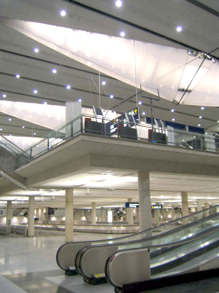 Inside of the international public arrivals hall at P.E.T. Airport (personal picture 2005)